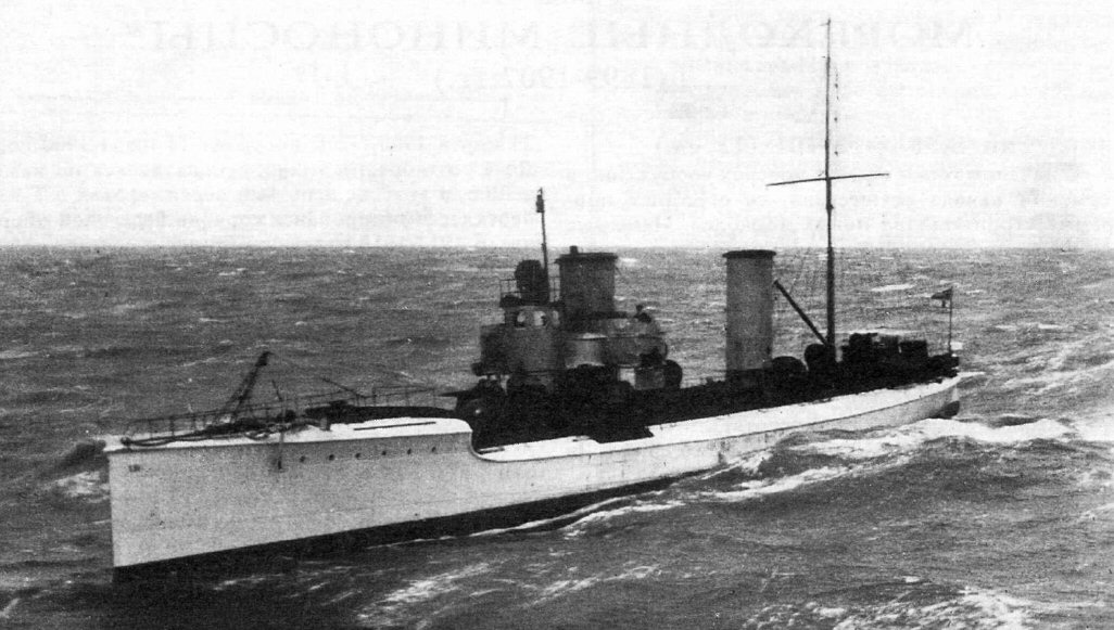 German destroyer (Hochsee Torpedoboot) S.90